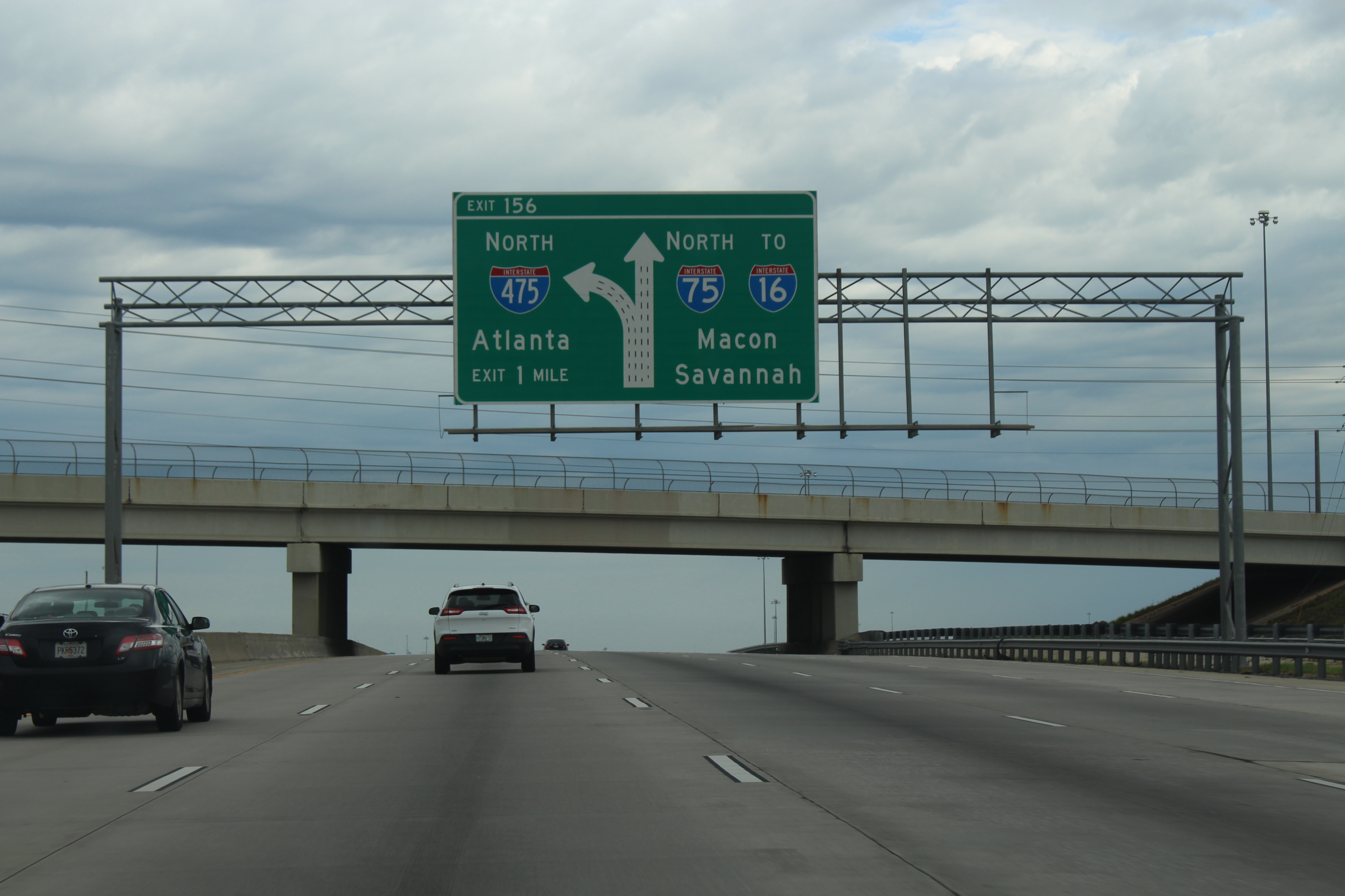 Georgia I75nb exit 156 1 mile, Macon-Bibb County, Georgia